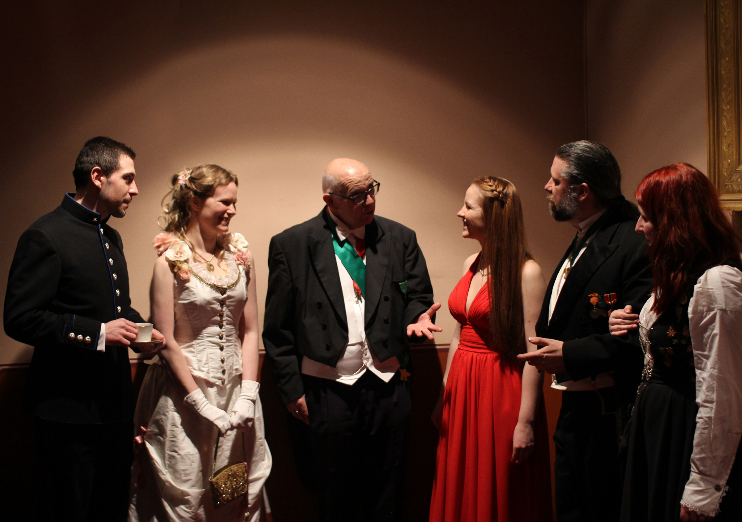 Students and professors attending an academic ball held by the Science Students Society, University of Oslo, showing typical features of white tie dress: The ladies are wearing a ball gown, cocktail dress and national costume. The two older men are wearing white ties and tailcoats with couleurs, while the younger man is wearing a dress uniform.